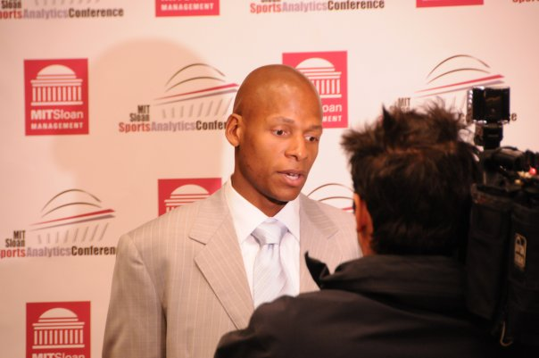 2009 MIT Sloan Sports Analytics Conference